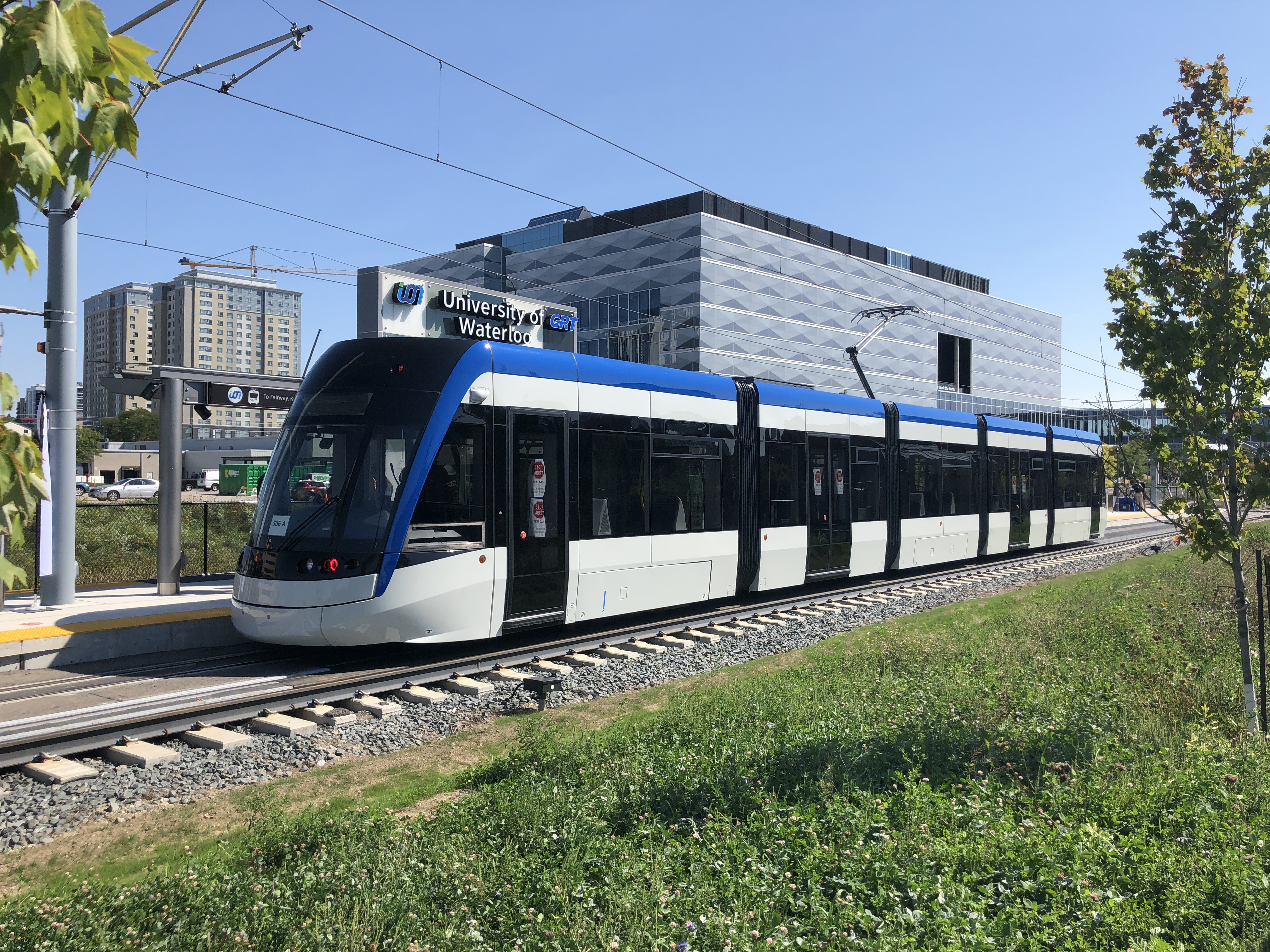 Flexity Freedom 506 at University of Waterloo station.